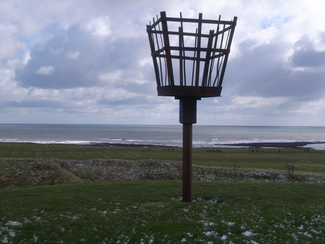 Berwick upon Tweed beacon In Berwick, the Elizabethan city wall houses a huge metal brazier which points out to sea. The lighting of the beacon normally signals the start of festivities in the town and signals the next beacon in line to light up and so on around England.